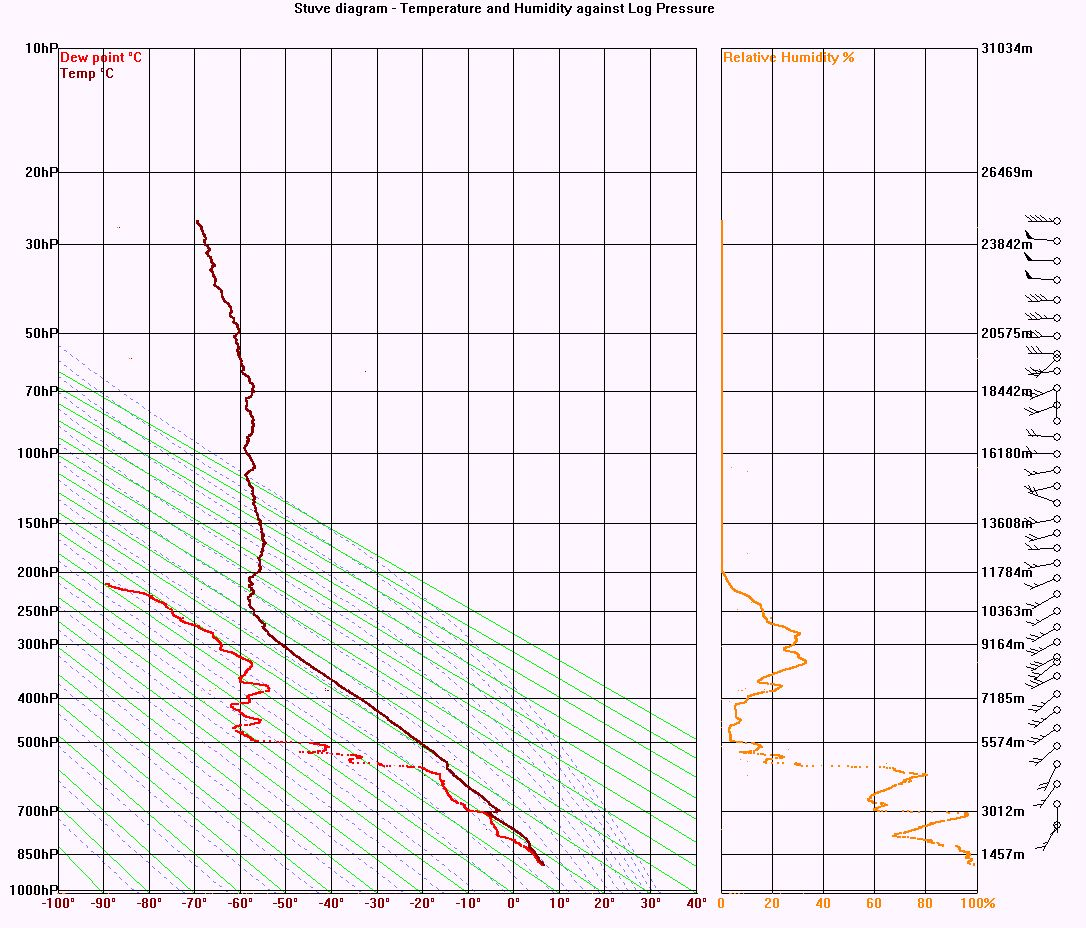 Stüve diagram created by decoding software licensed to me using raw data from a radiosonde launched by De Bilt (WMO no. 06260), Netherlands, on Nov. 27, 2014 , 00UTC. Raw data acquired with my own radio equipment.